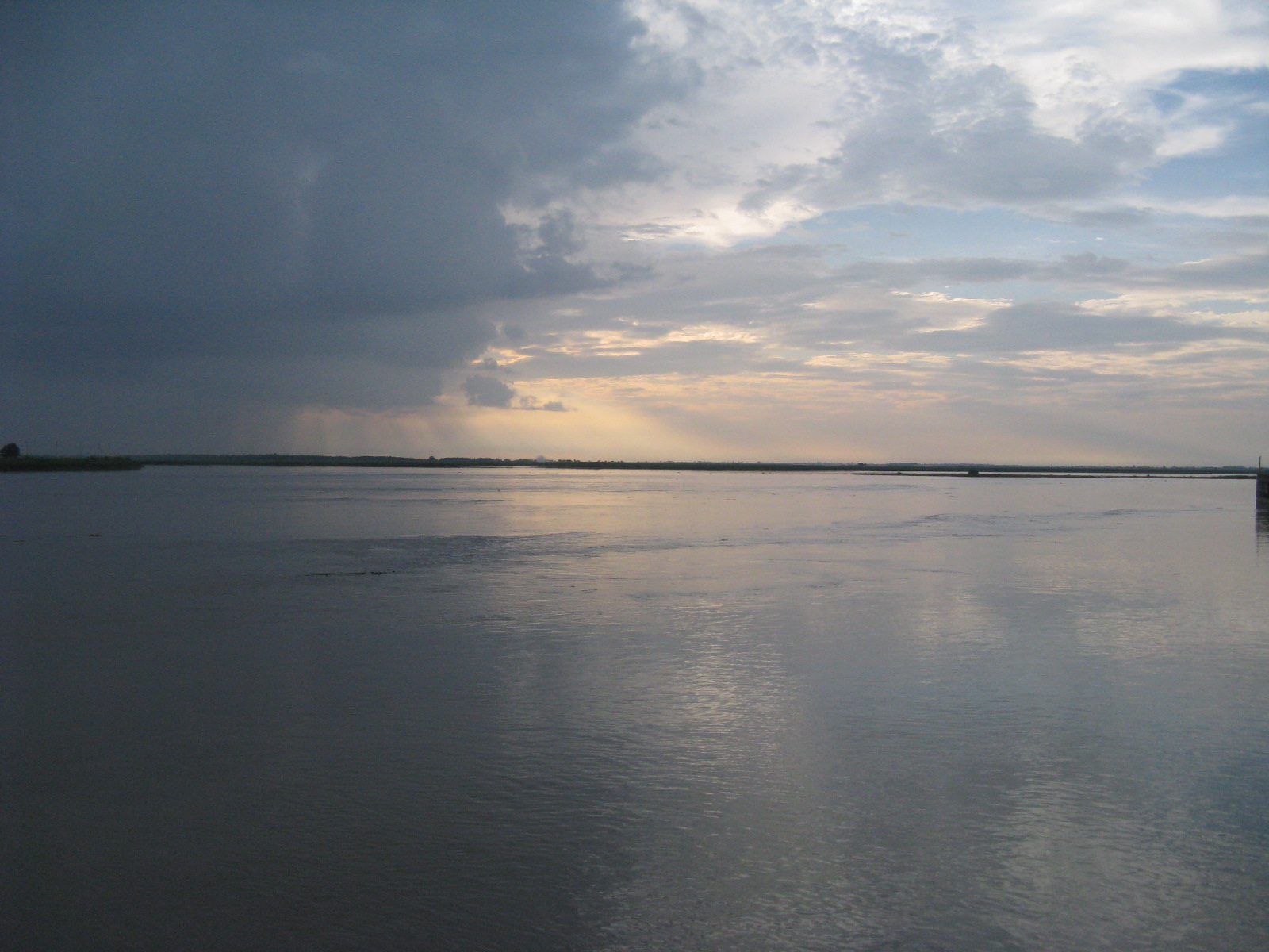 Sharda Dam in Lucknow, Uttar Pradesh